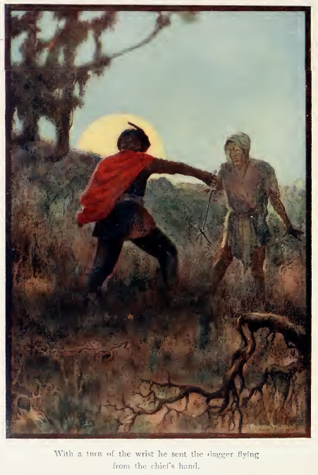 Illustration by Perham W. Nahl (1869-1935) from Arthur W. Ryder's Twenty-Two Goblins (1917)